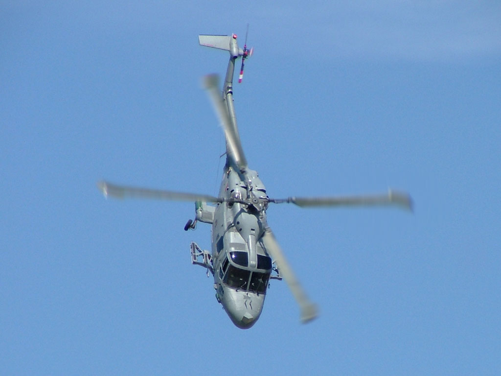 Westland Lynx HAS3 of the Black Cats (Royal Navy) helicopter display team at RIAT 2005.